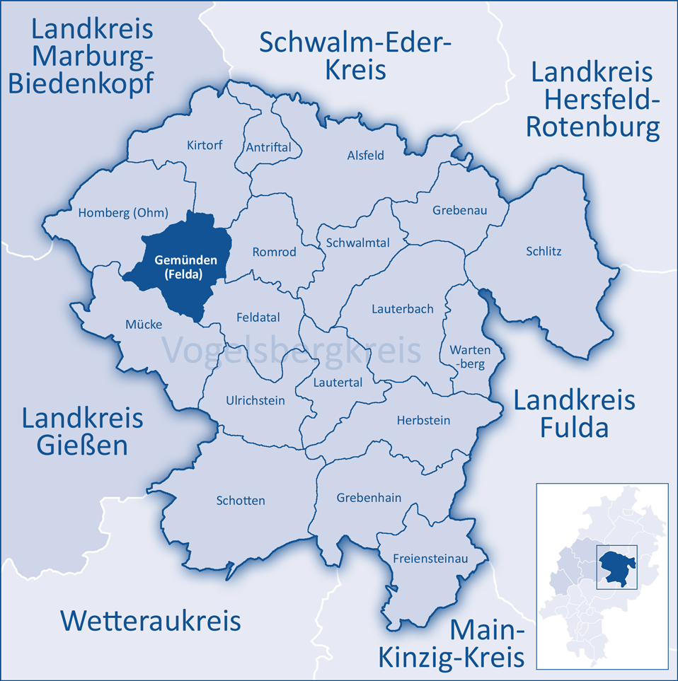 The map shows a district in the area of Vogelsbergkreis